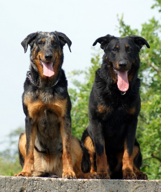 Beauceron - czech harlequine girl Azira le Coeur Pur and hungarian black and tan boy Cazan Els Pastors de la Sandra - kennel Psi Mysteria CZ